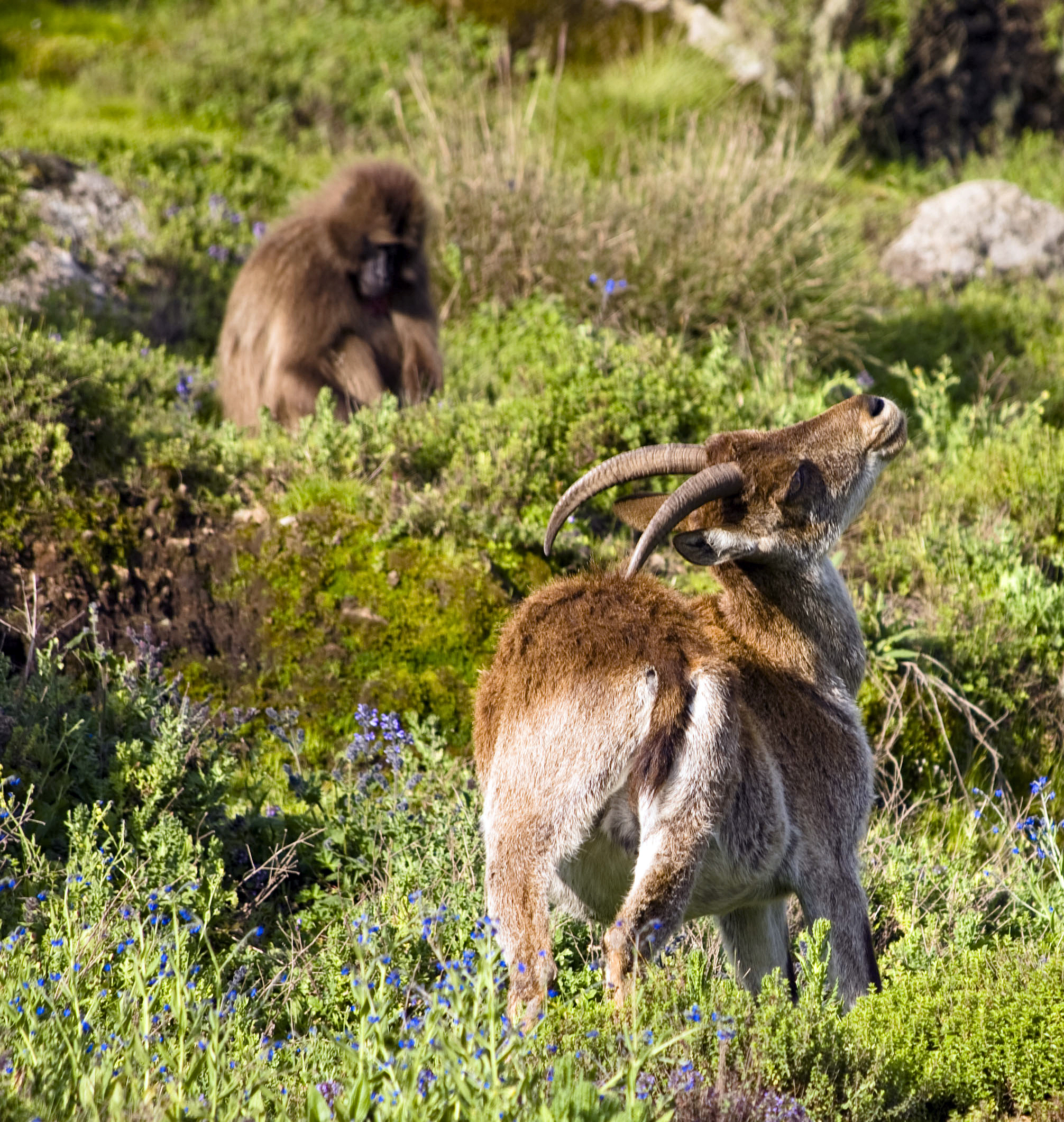 Walia Ibex (Capra walie) and Gelada Baboon (Theropithecus gelada). Semien Mountains National Park near Chennek camp More of my pictures of Ethiopia can be seen at